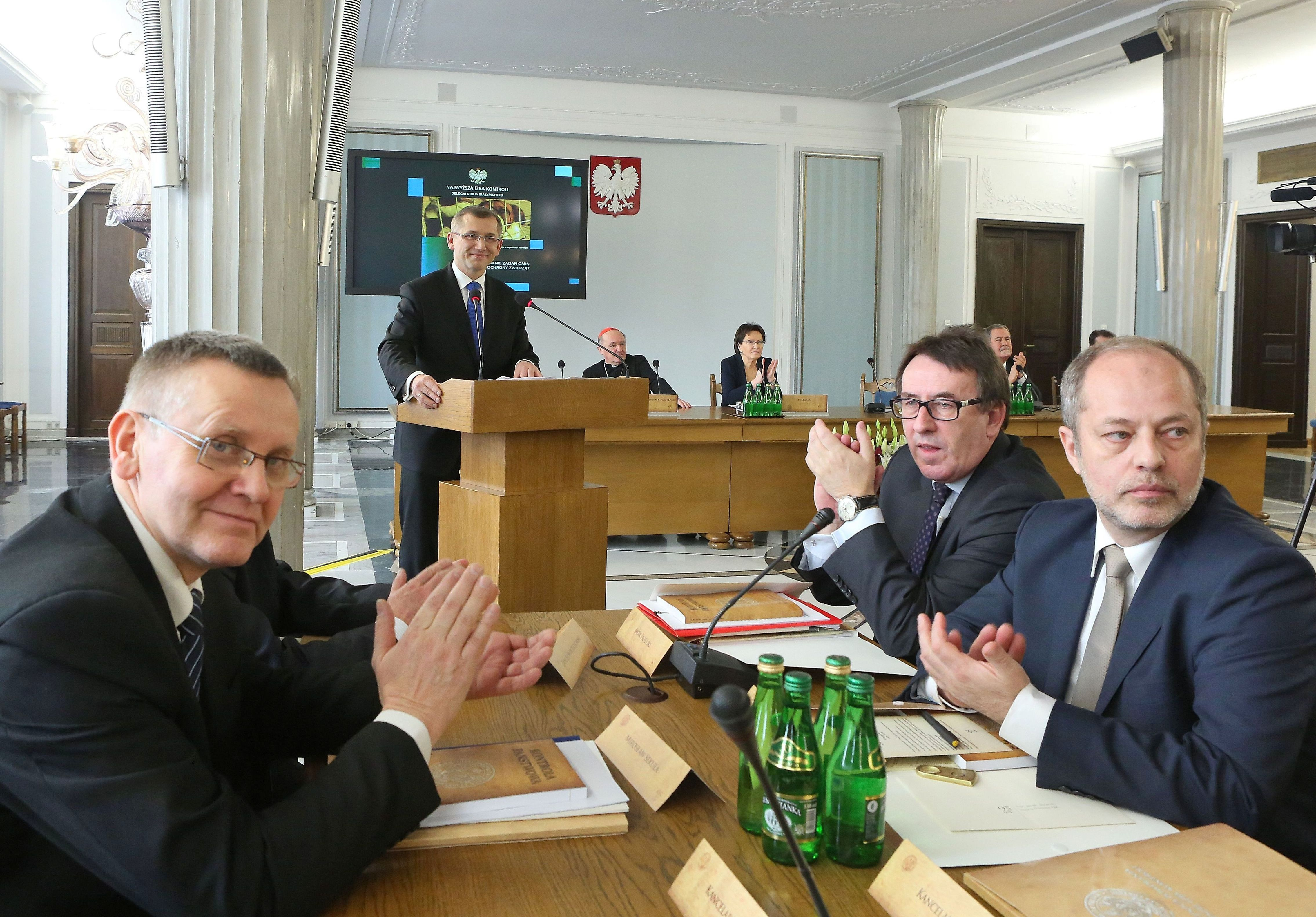 Sitting of the College of the Supreme Audit Office to commemorate 95th anniversary of establishing the SAO in the Column Hall in the Sejm